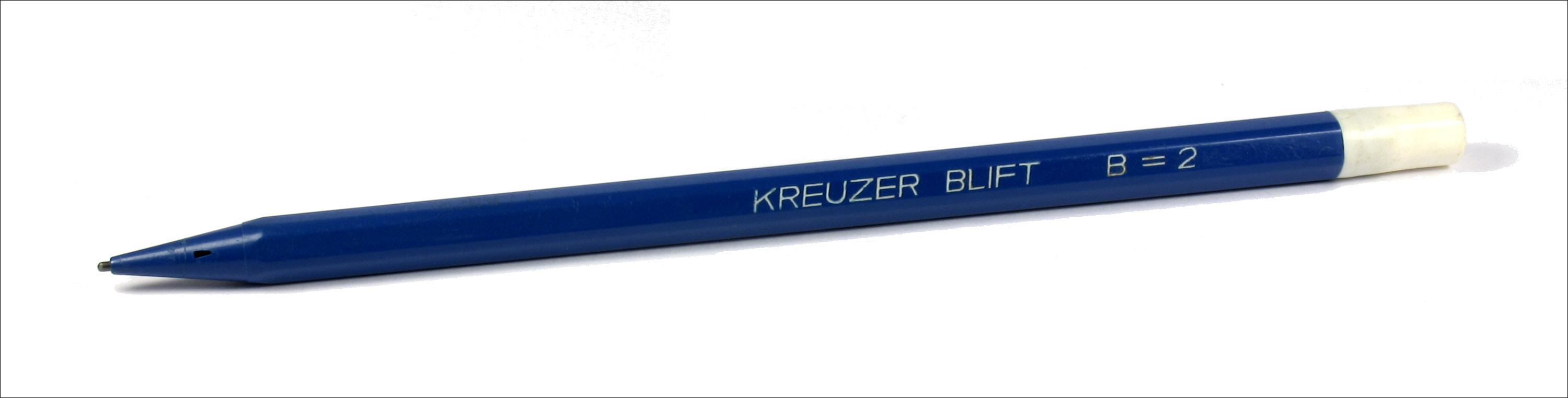 Propelling pencil Kreuzer Blift (original model)